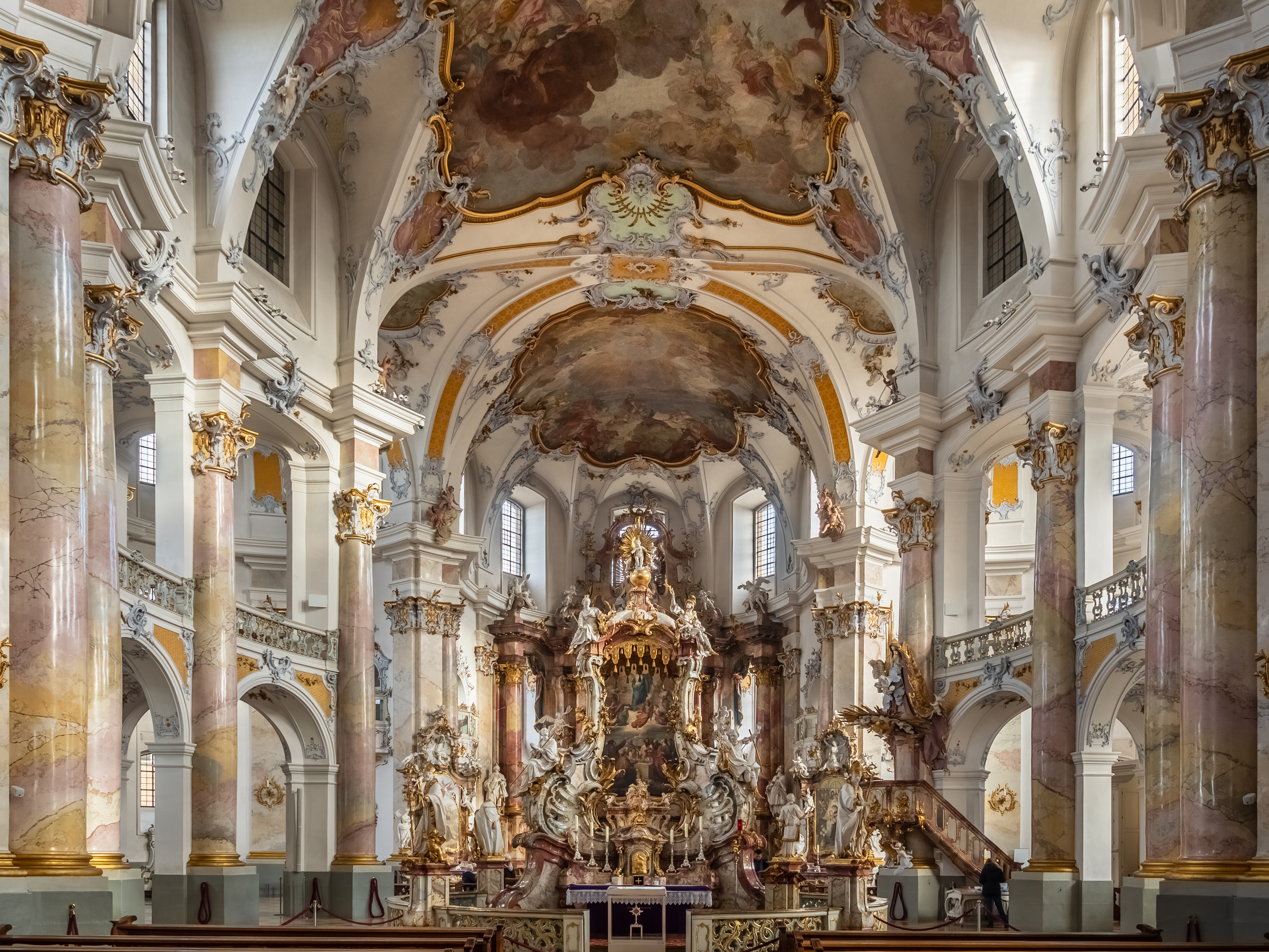 Side altar in the Basilica Vierzehnheiligen